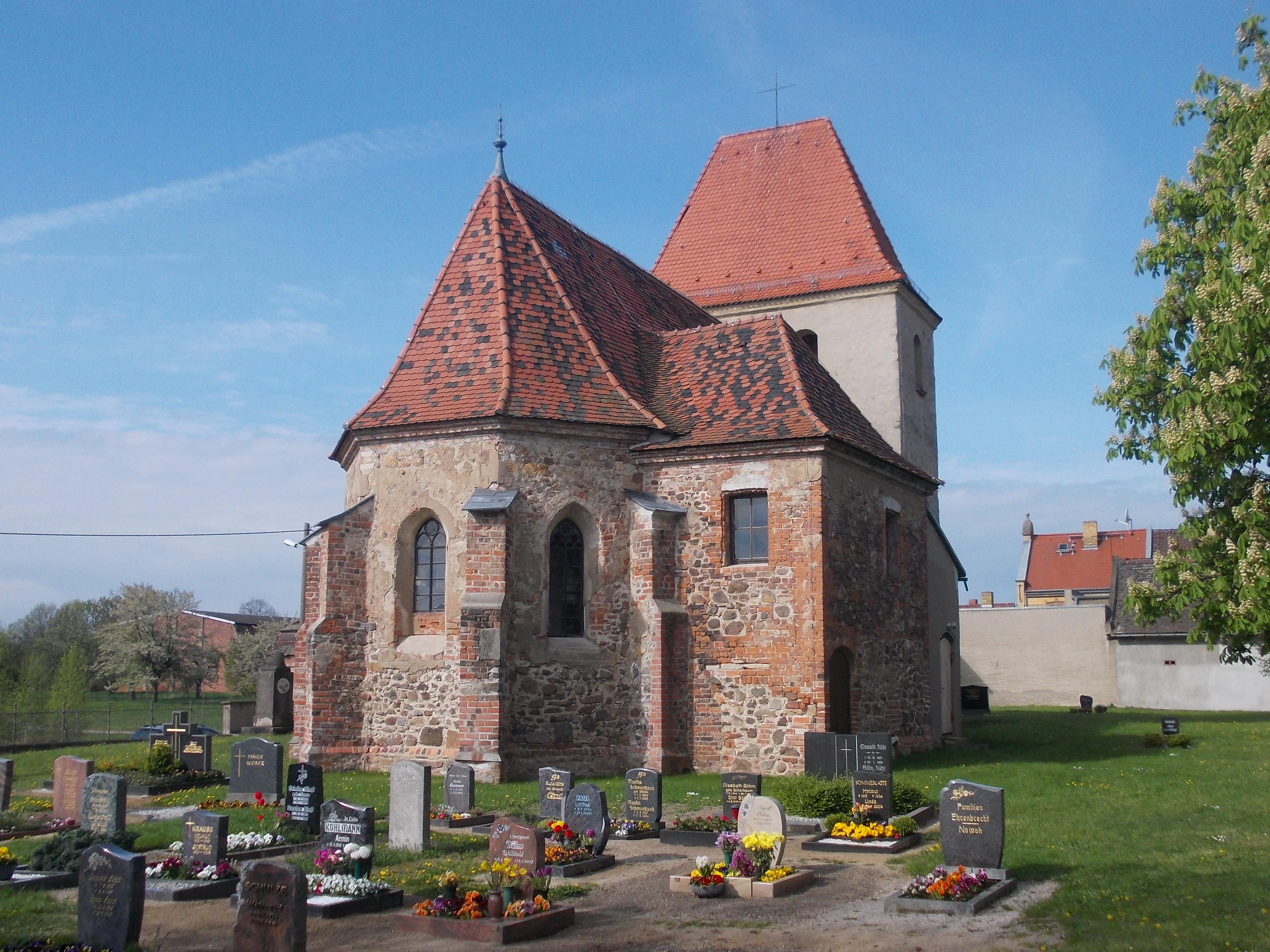 Freiroda church (Schkeuditz, Nordsachsen district, Saxony)